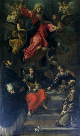 Assumption of Mary